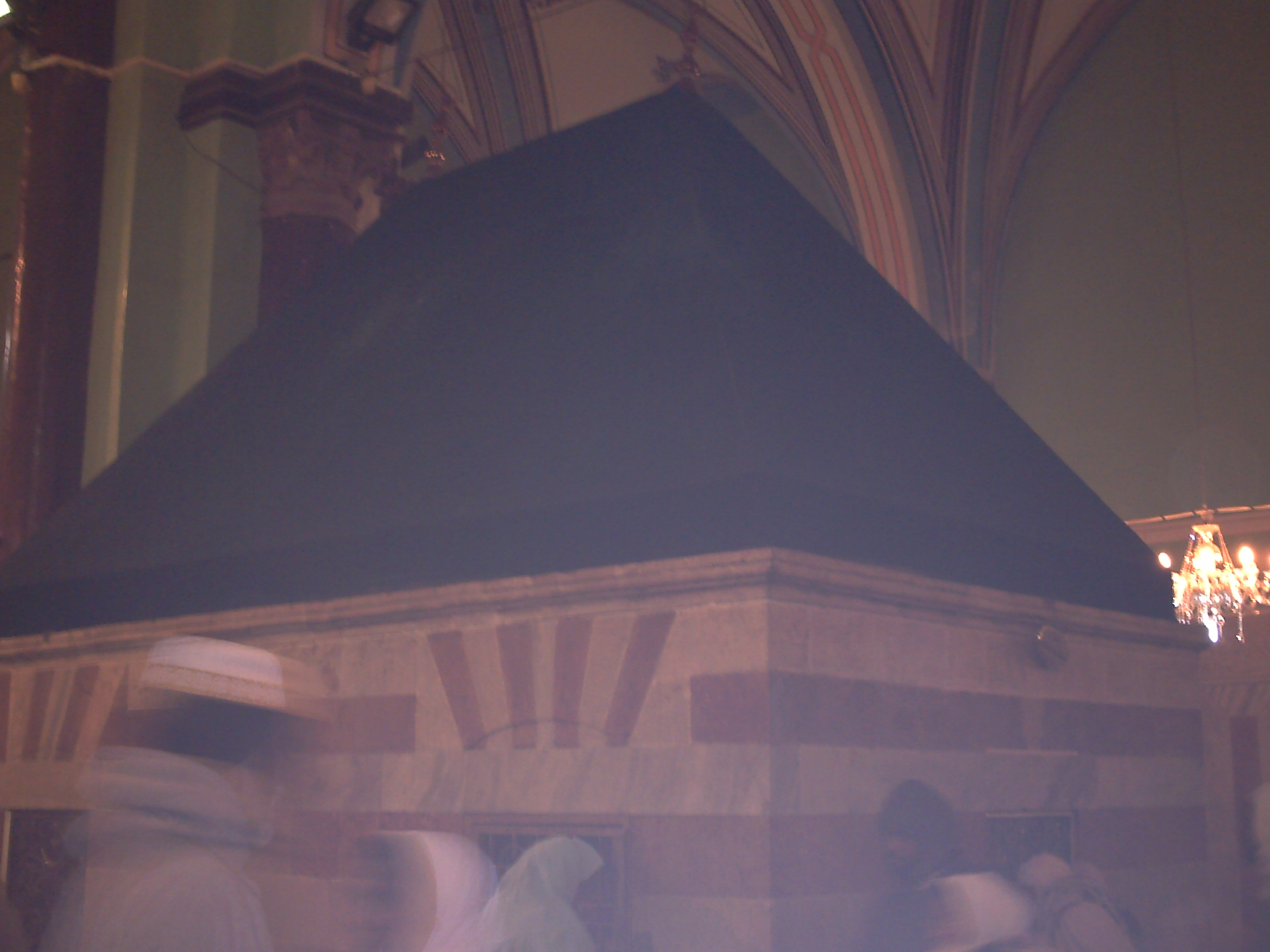 Grave Ishaq at Cave of the Patriarchs, known in Islam as the Ibrahim-i-Mosque (literally translated as the Mosque of Abraham).